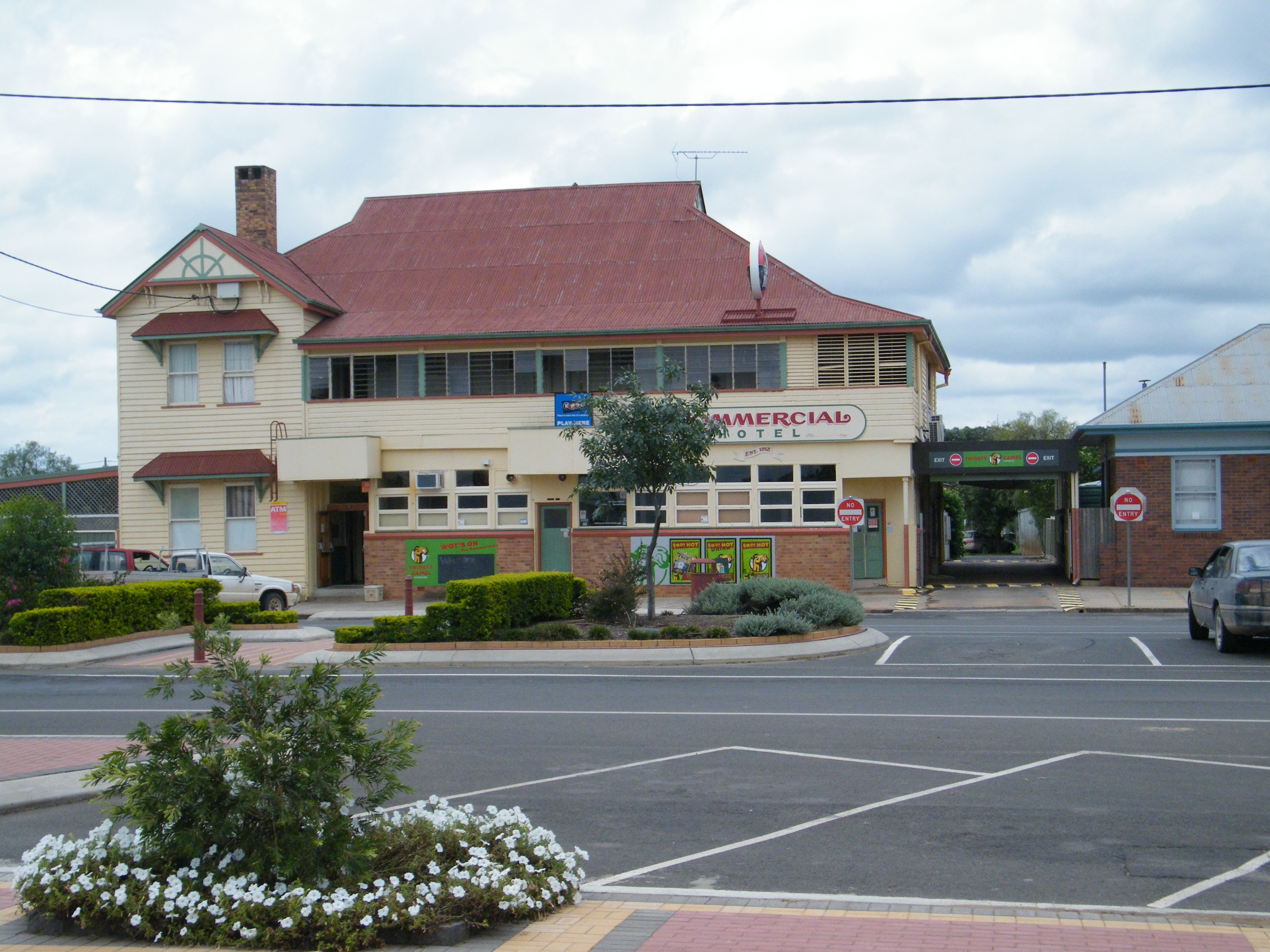 Commercial Hotel on Day Street, Tara, QLD (Surat Developmental Road).